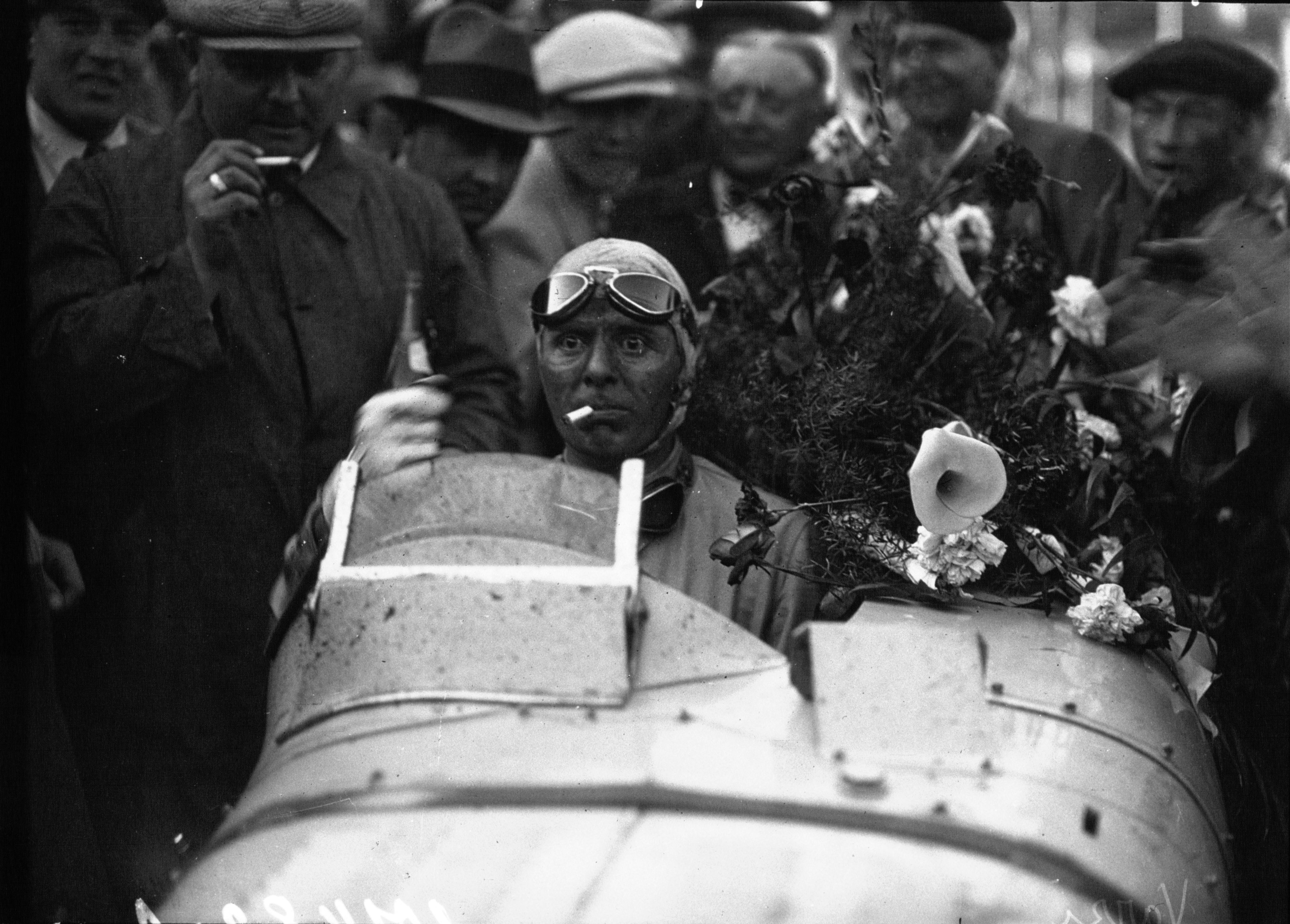 Achille Varzi at the 1933 Monaco Grand Prix